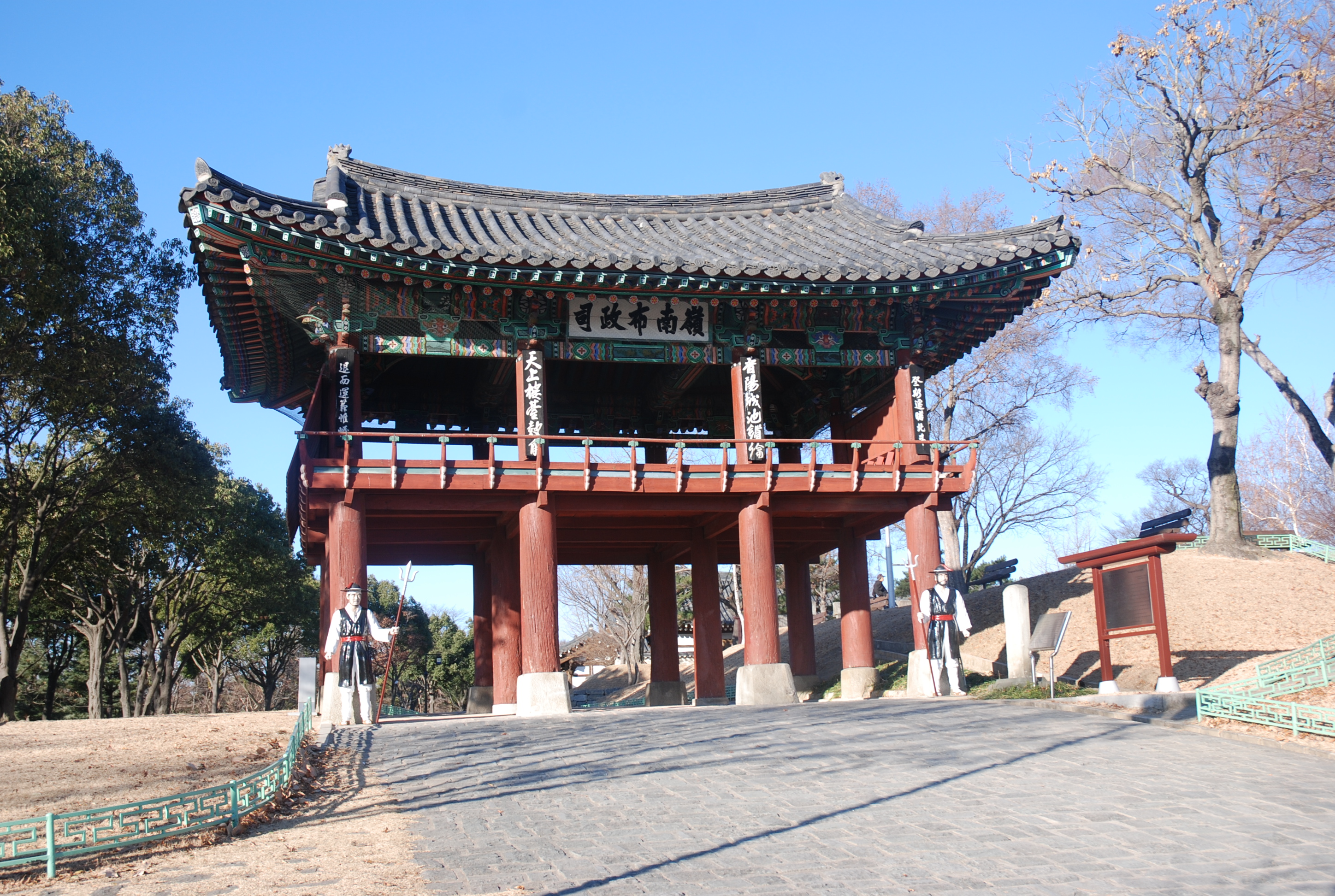 Youngnam posjungsa is the inner gate of the Jinju castle for the commander